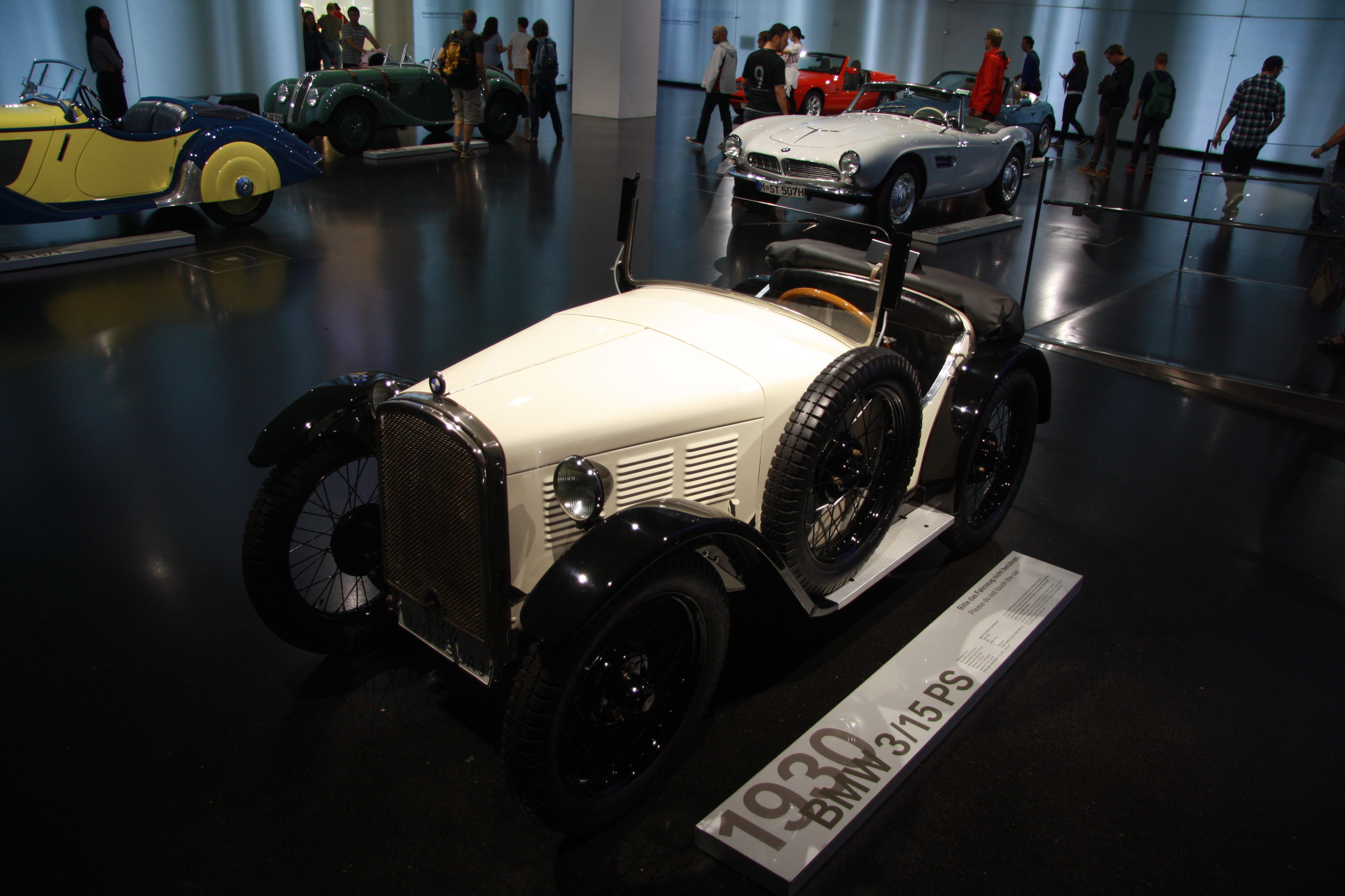 BMW 3/15 PS DA 3 Typ Wartburg in BMW-Museum in Munich, Bayern.